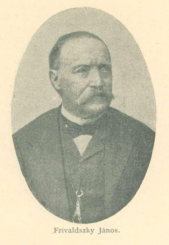 Portrait of the Hungarian zoologist János Frivaldszky